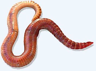 Red wiggler